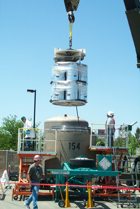 Workers load drums of contact-handled transuranic waste into a TRUPACT-II shipping container.